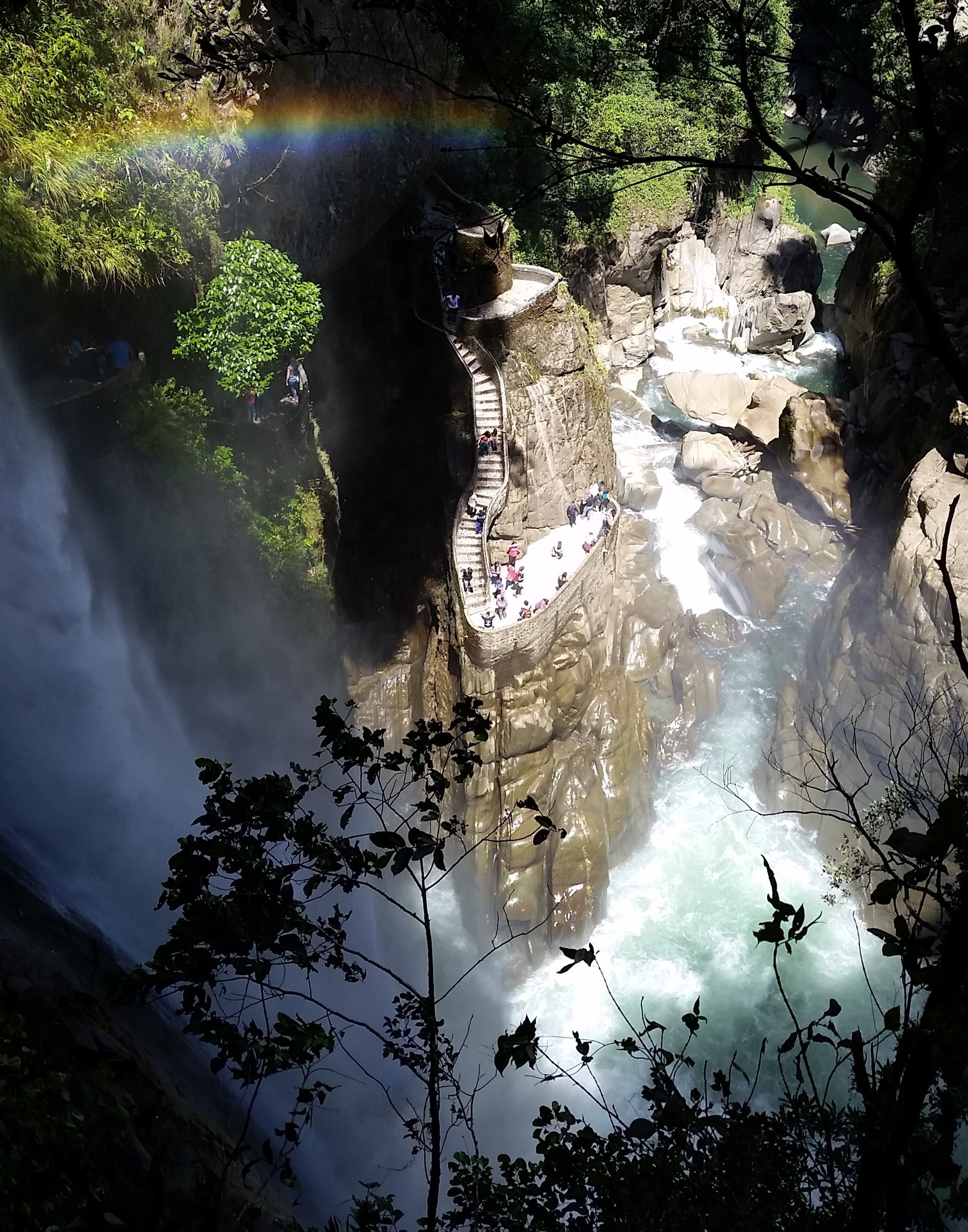 Plunge pool and observation area at the base of the Agoyán Waterfalls